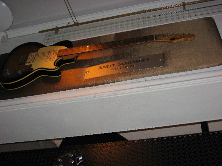 a guitar used by Andy Summers of the Police